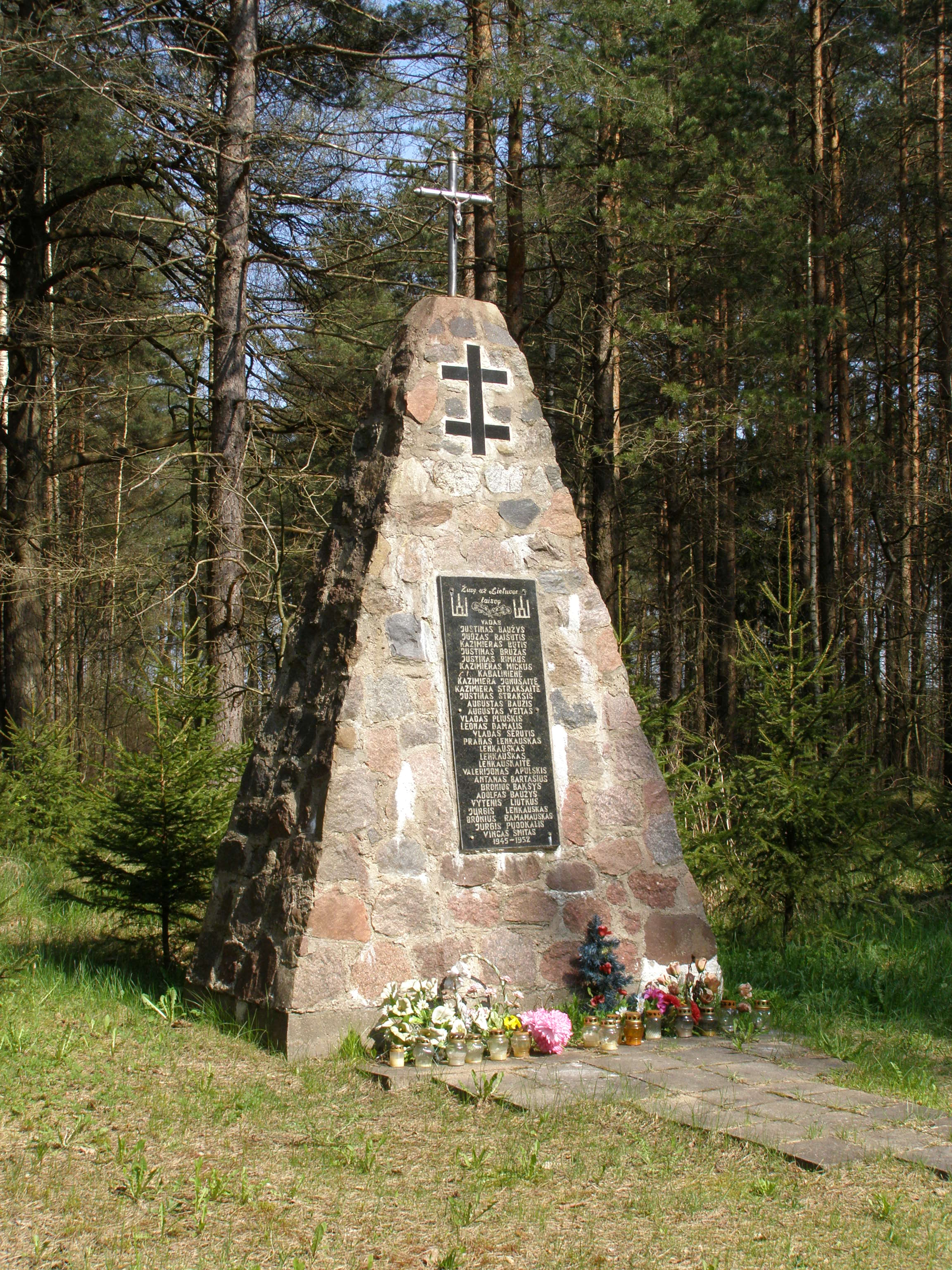 Žemytė, Skuodas district, LithuaniaLietuvių: Žemytės paminklas partizanams, Skuodo rajonas, Lietuva